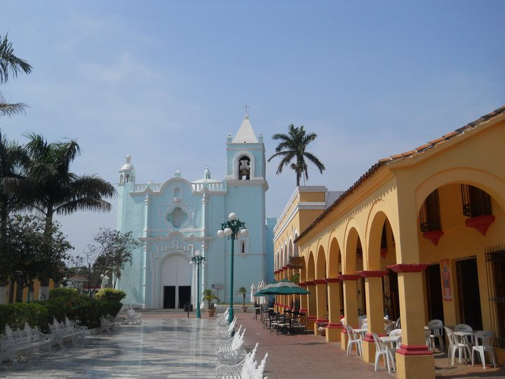 Parroquia de la Candelaria y portales, Tlacotalpan, Veracruz.